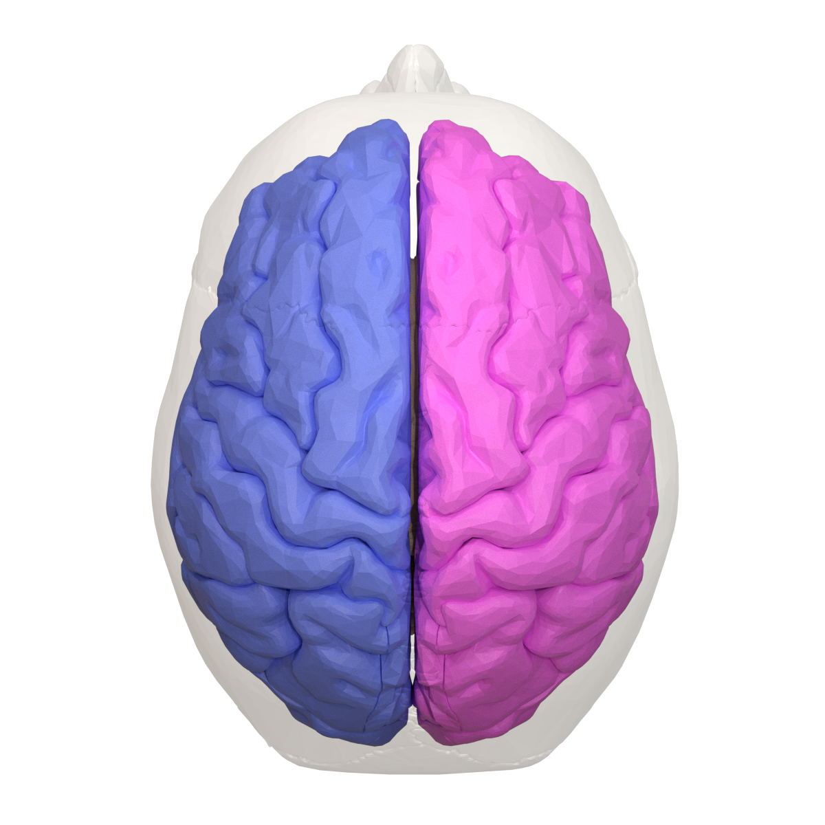 Cerebral hemispheres Blue: Left cerebral hemisphere Purple: Right cerebral hemisphere